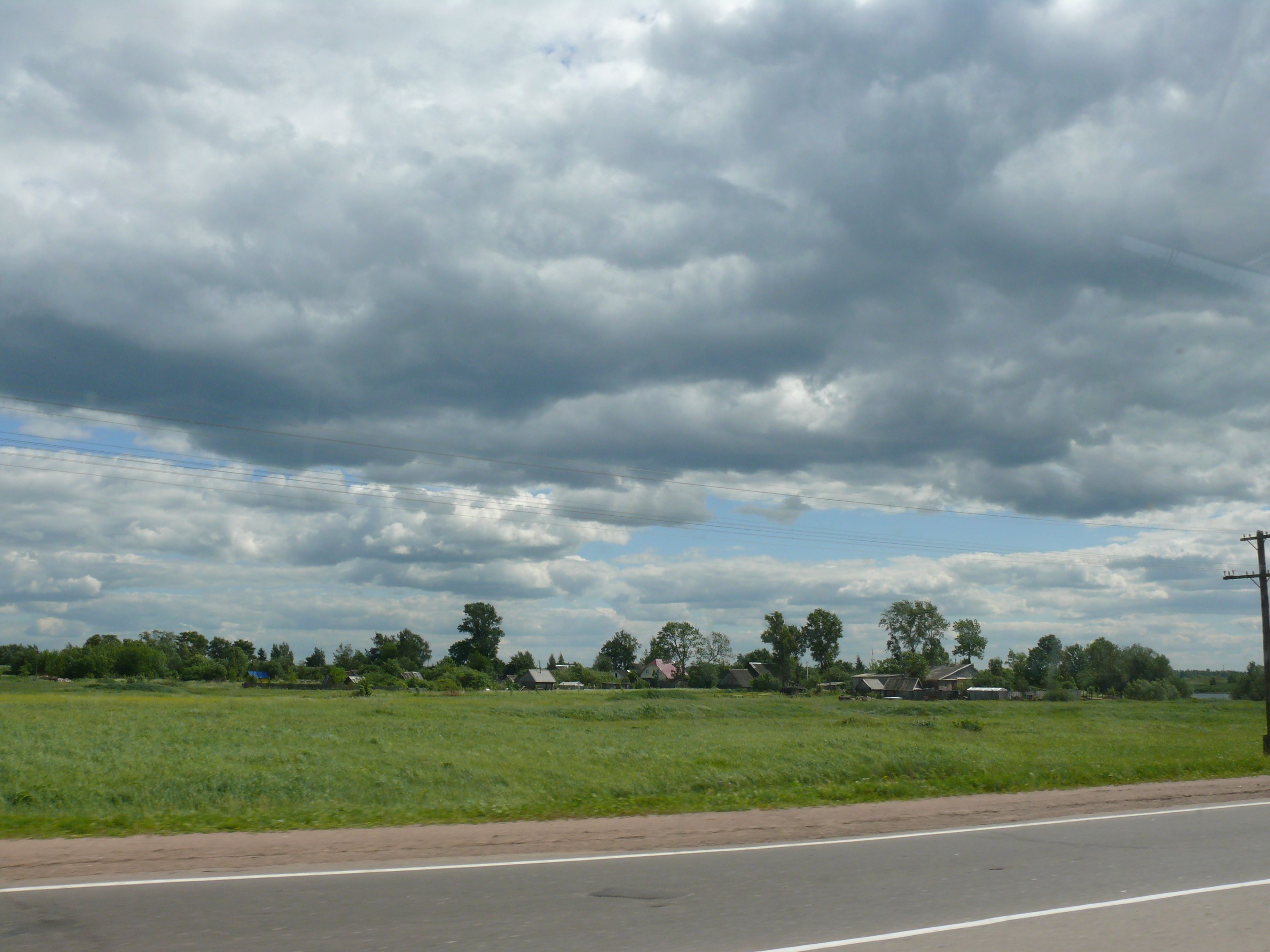 Stary Shimsk village. Shimsky district, Novgorod oblast, Russia